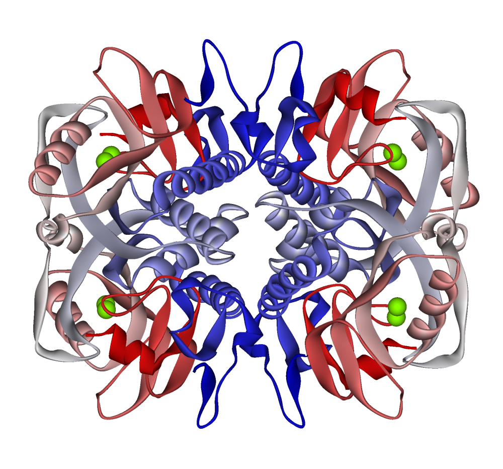 Ribbon diagram of a human hypoxanthine-guanine phosphoribosyltransferase (HGPRT) tetramer. Units colored from N- to C-terminal end; magnesium ions visible in green. Created using Accelrys DS Visualizer Pro 1.6 and GIMP. Legend Magnesium ions